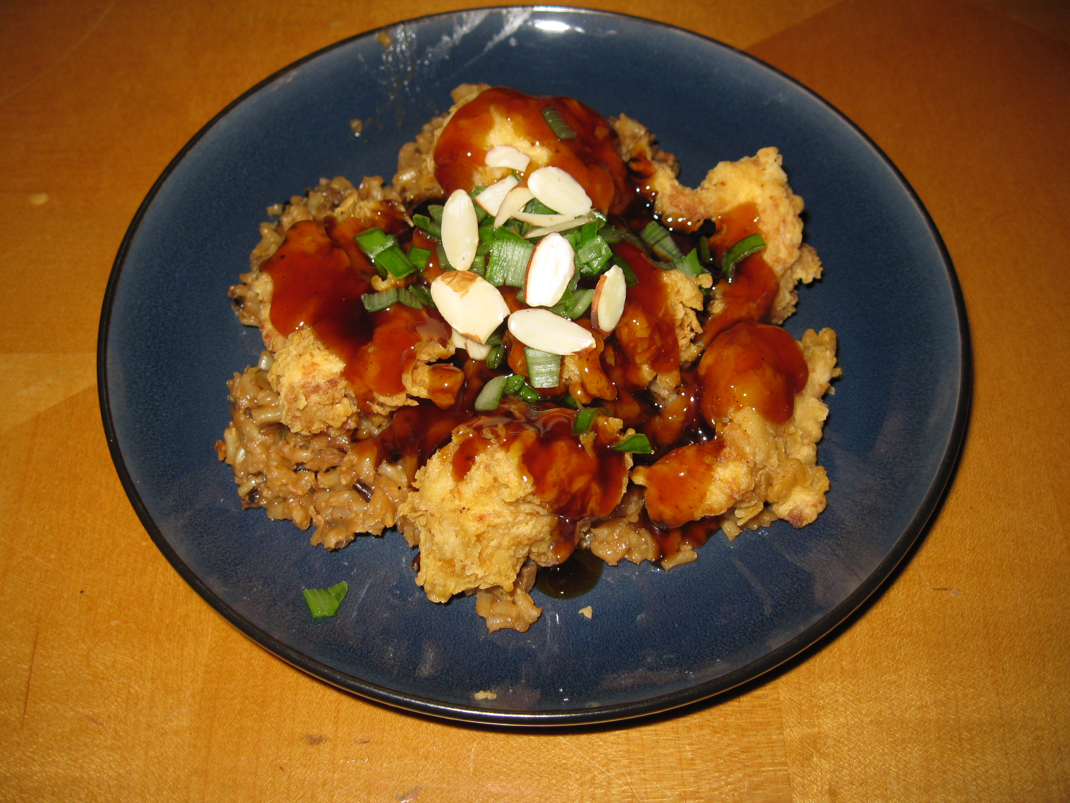 A plate of Springfield-style cashew chicken as prepared by the photographer. Photographer's caption: "The finished product! with oyster sauce, scallions and cashews." Note: The cashews appear to be sliced almonds.